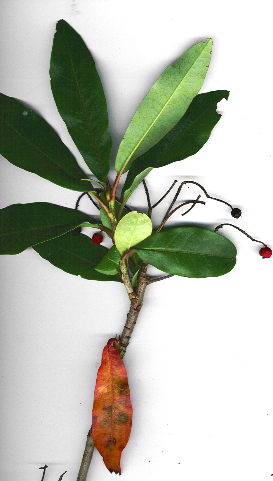 Photinia davidiana (plant). Location: Maui, Polipoli campground